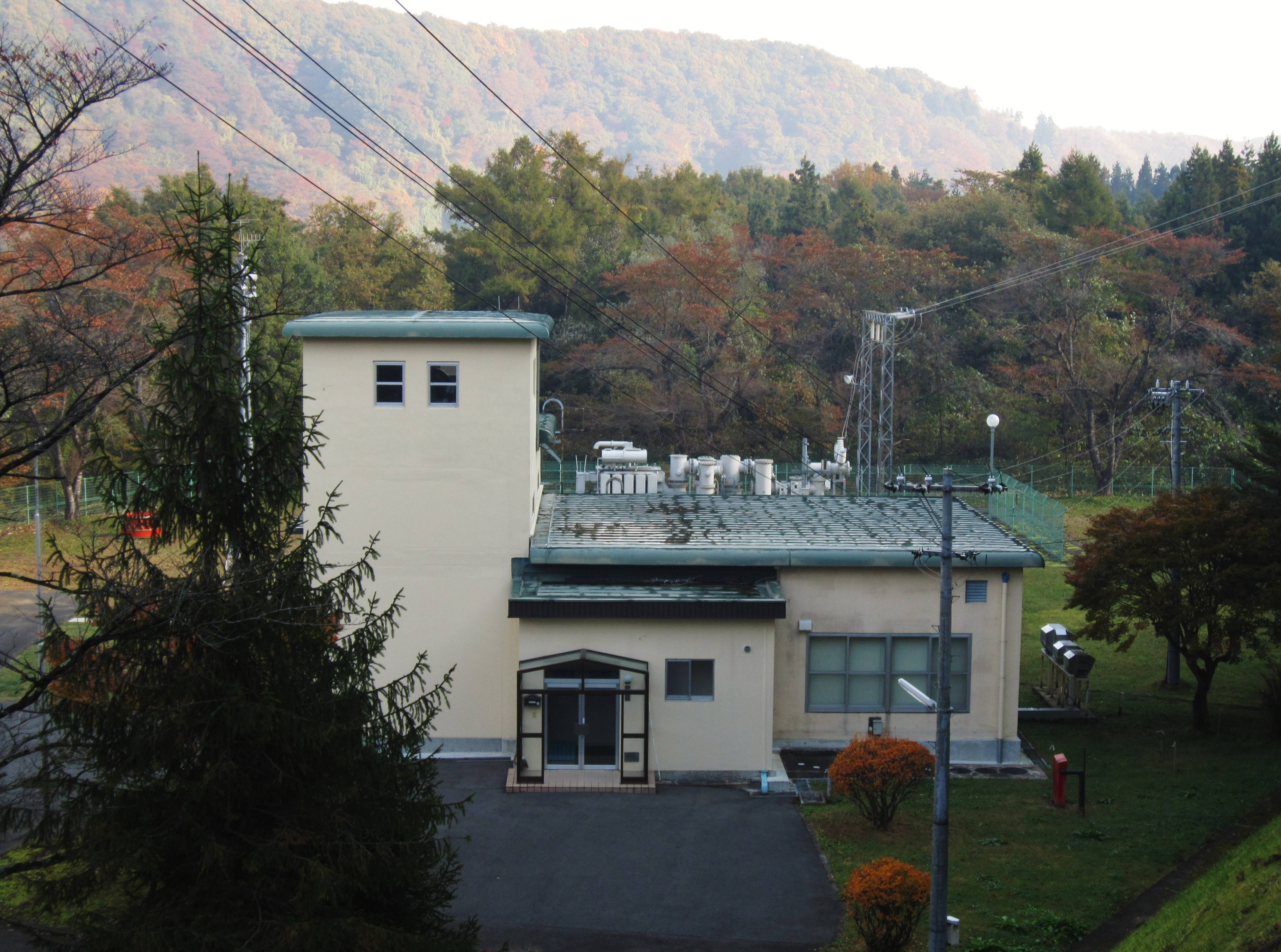 Isawa II power station.